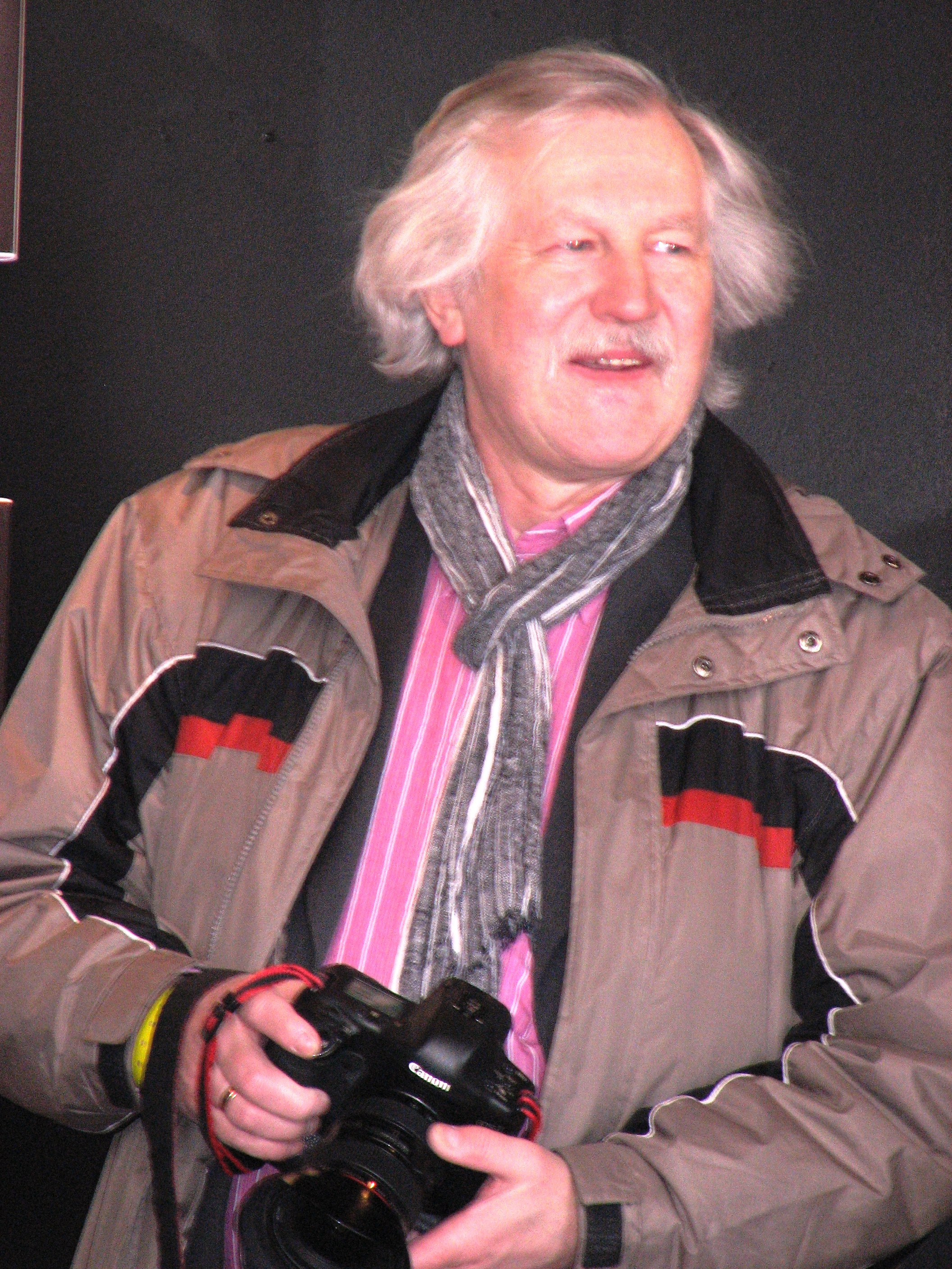 Peeter Langovits is Estonian photographer.